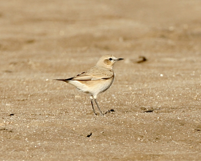 Isabelline Wheatear - male, non-breeding